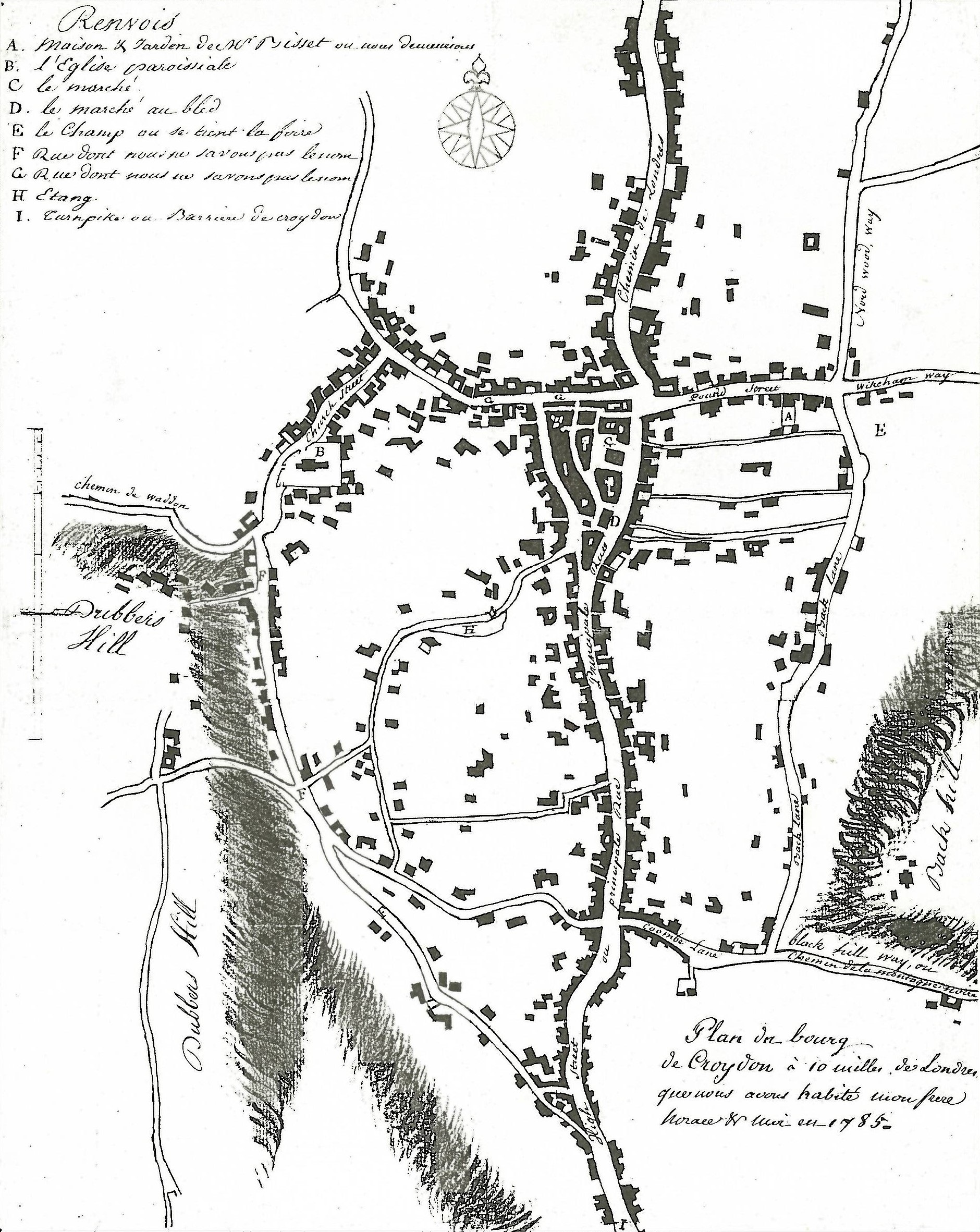 Plan of the town of Croydon drawn by Jean-Baptiste Say (1767–1832) in 1785. Marked locations include: A - house of Alexander Bisset where Say and his brother stayed; B - parish church; C - market; D - cornmarket; E - Fairfield; F & G unnamed roads; H - pond; I - turnpike gate. Location of original: Croydon Archives AR 47/1.